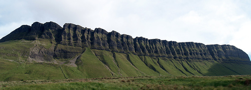 This was our mountain number 2. It's a huge glacier-carved bit of rock that looks a tad like Uluru from a distance.